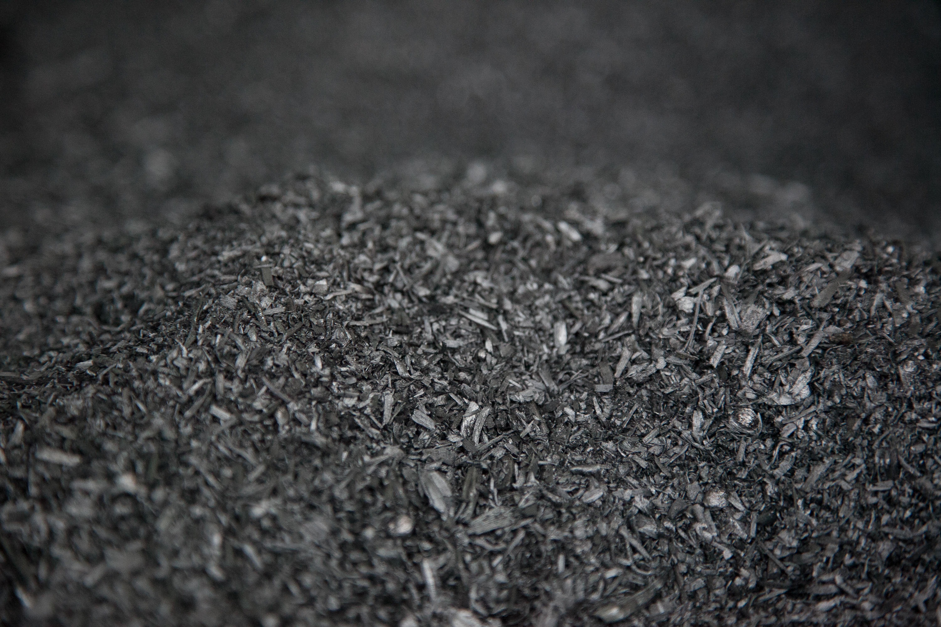 Biochar is an evolved charcoal made from woody biomass. Current uses include soil amendment, storm water filtration, and environmental remediation. The biochar industry in Oregon is small but growing.